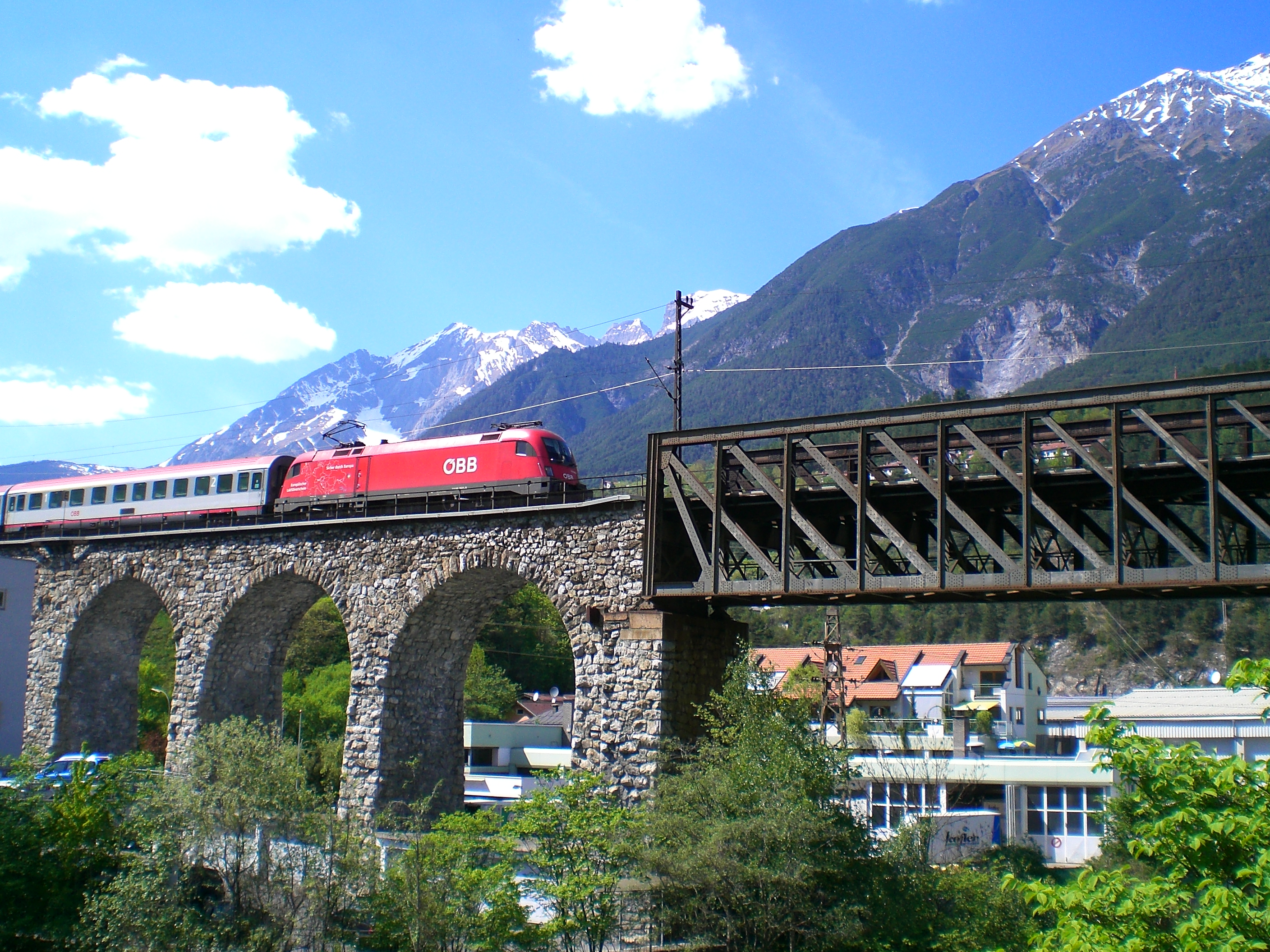 Inn bridge in Landeck, Austria, with ÖBB EC 569 to Wien Westbf (Vienna West railway station) This media shows the remarkable cultural object in the Austrian state of Tyrol listed by the Tyrolean Art Cadastre with the ID 24360. (on tirisMaps, on tirisdienste.at, pdf, more images on Commons)